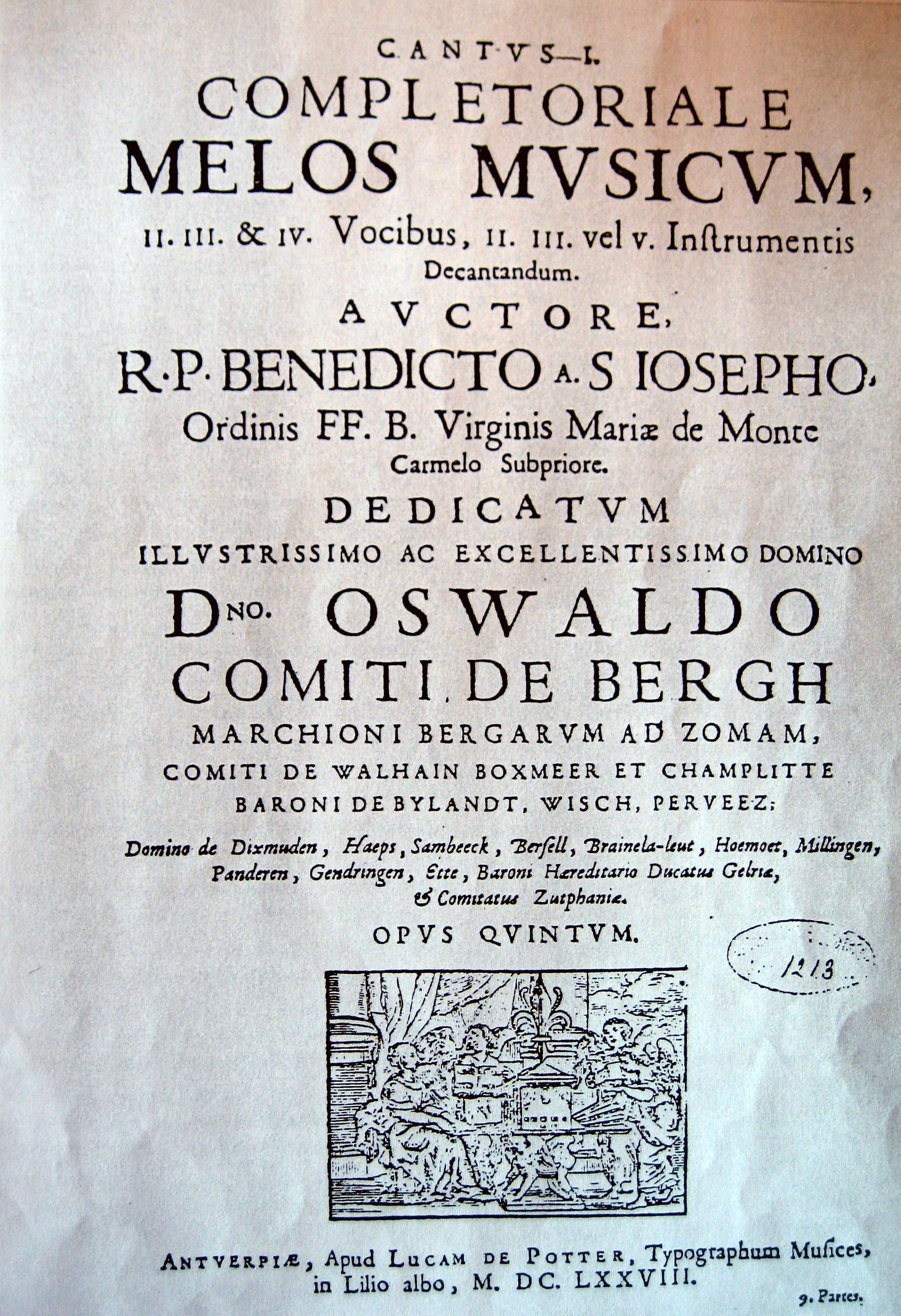 Tittlepage Voicebook One Opus V by Benedictus Beuns